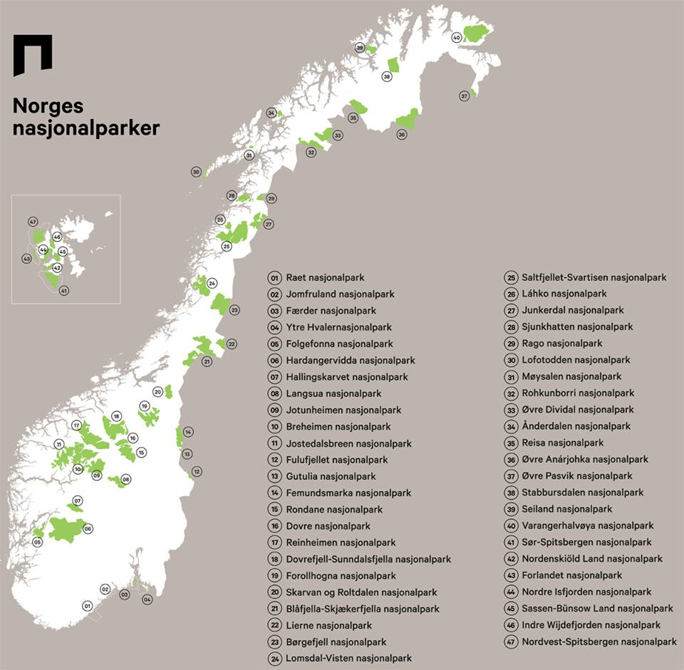 Map of the norwegian national parks as of 2018, after the inclusion of Lofotodden in june 2018.